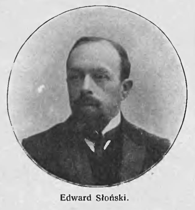 Edward Słoński (1872 - 1926) - Polish poet and writer.